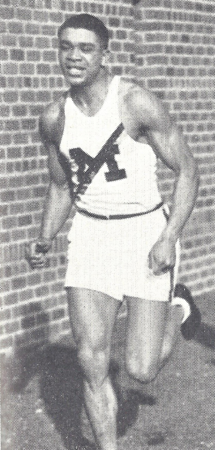 Photograph of Willis Ward This work is in the public domain because it was published in the United States between 1923 and 1963 and although there may or may not have been a copyright notice, the copyright was not renewed. Unless its author has been dead for the required period, it is copyrighted in the countries or areas that do not apply the rule of the shorter term for US works, such as Canada (50 pma), Mainland China (50 pma, not Hong Kong or Macao), Germany (70 pma), Mexico (100 pma), Switzerland (70 pma), and other countries with individual treaties. See Commons:Hirtle chart for further explanation. This work is in the public domain because it was published in the United States between 1923 and 1977 and without a copyright notice. Unless its author has been dead for several years, it is copyrighted in jurisdictions that do not apply the rule of the shorter term for US works, such as Canada (50 p.m.a.), Mainland China (50 p.m.a., not Hong Kong or Macao), Germany (70 p.m.a.), Mexico (100 p.m.a.), Switzerland (70 p.m.a.), and other countries with individual treaties. See this page for further explanation.